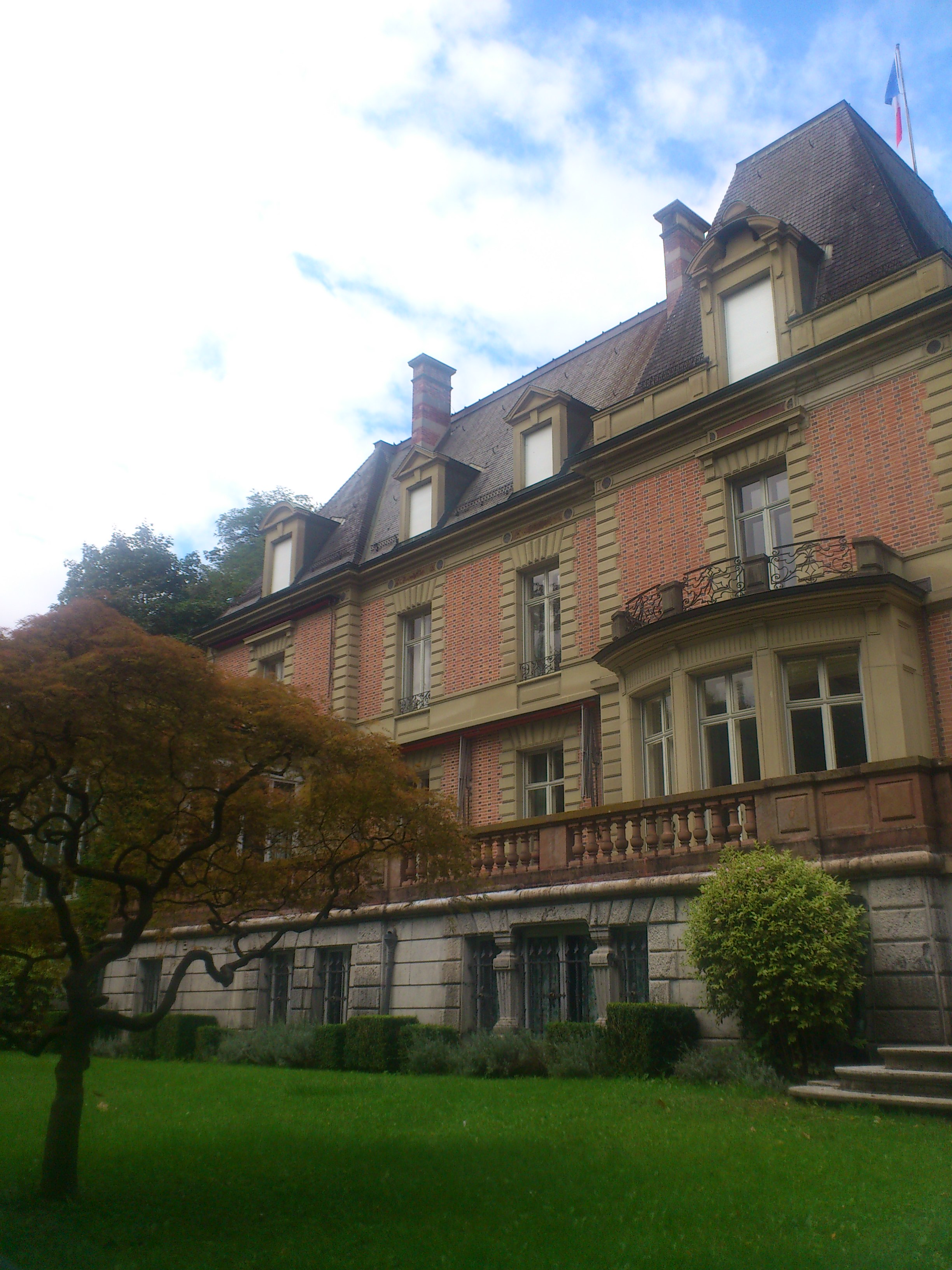 Ambassadorial residence of France in Bern (Switzerland), seen from the garden